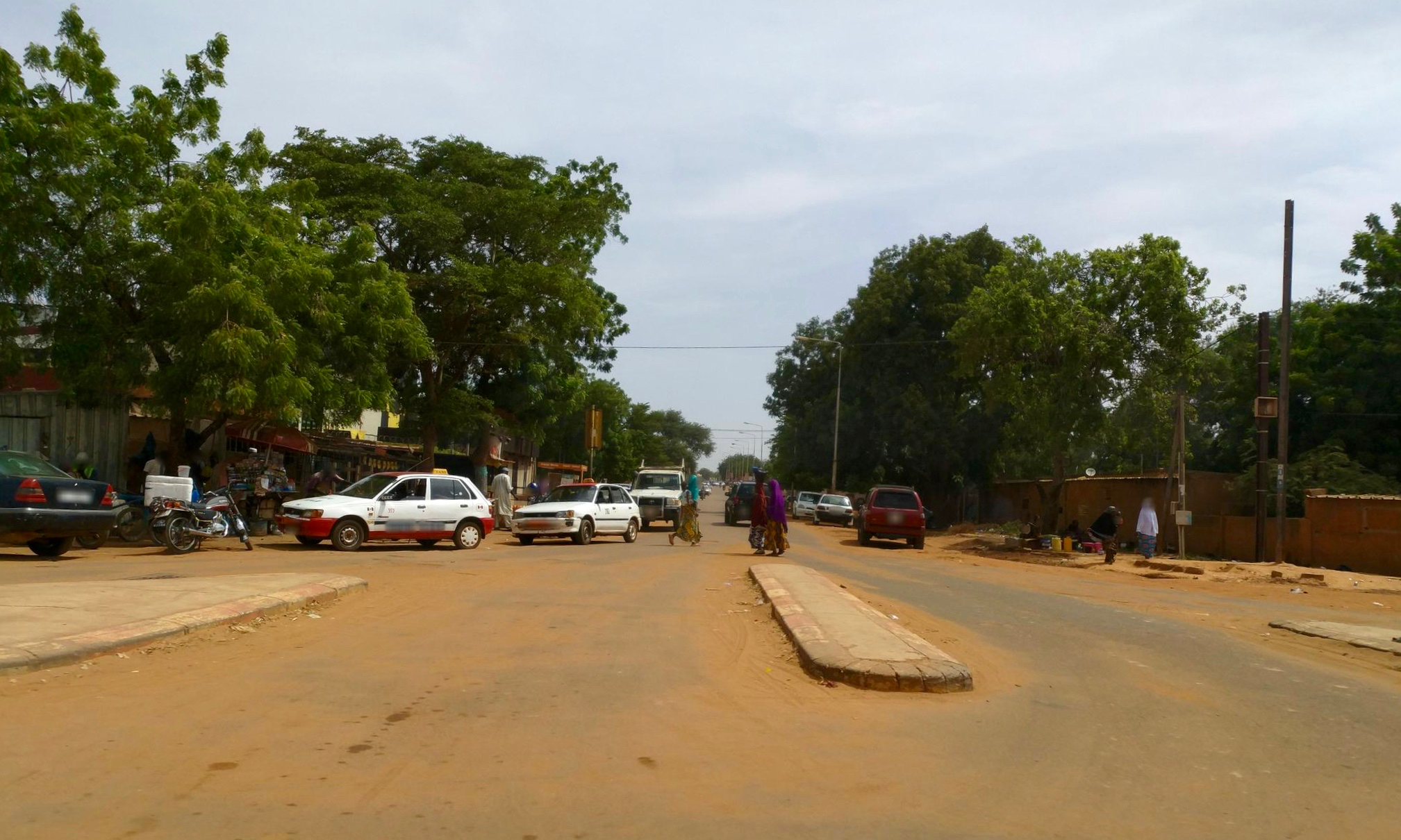 Avenue de Yantala in Yantala Haut, Niamey.